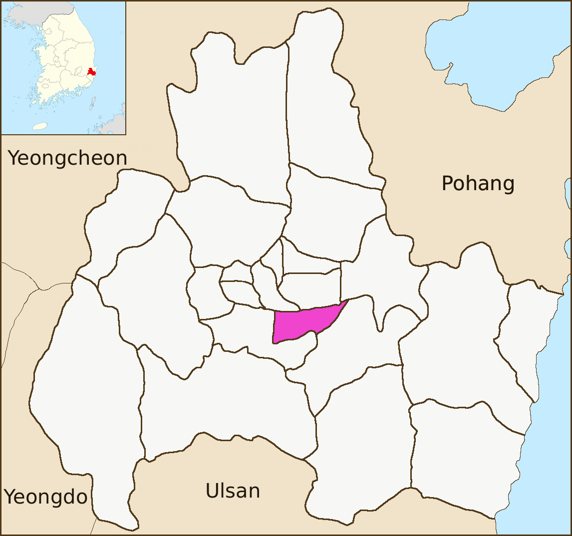 Map of Wolseong-dong, an administrative division of Gyeongju, South Korea. Created by User:Visviva, redrawn by Kokiri